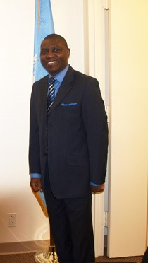 Ambassador Charles Armel Doubane Central African politician and diplomat who has been Minister of Foreign Affairs of the Central African Republic since 2016